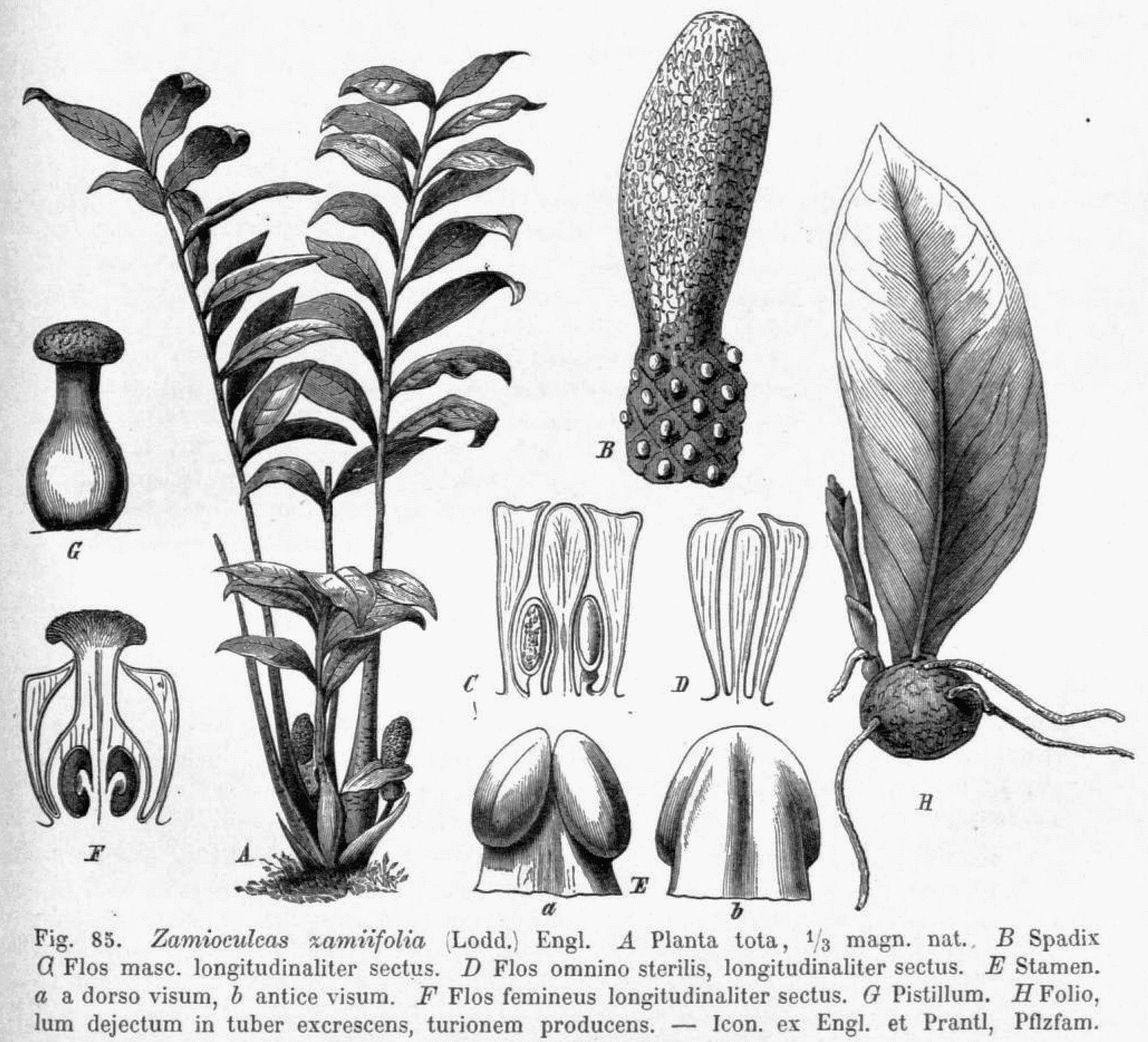 Zamioculcas zamiifolia